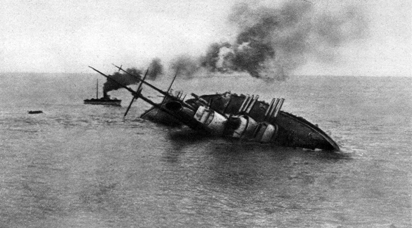 Italian postcard with photograph of the sinking of the Austro-Hungarian battleship SMS Szent István while it was proceeding to break through the Otranto Barrage 10 June 1918.